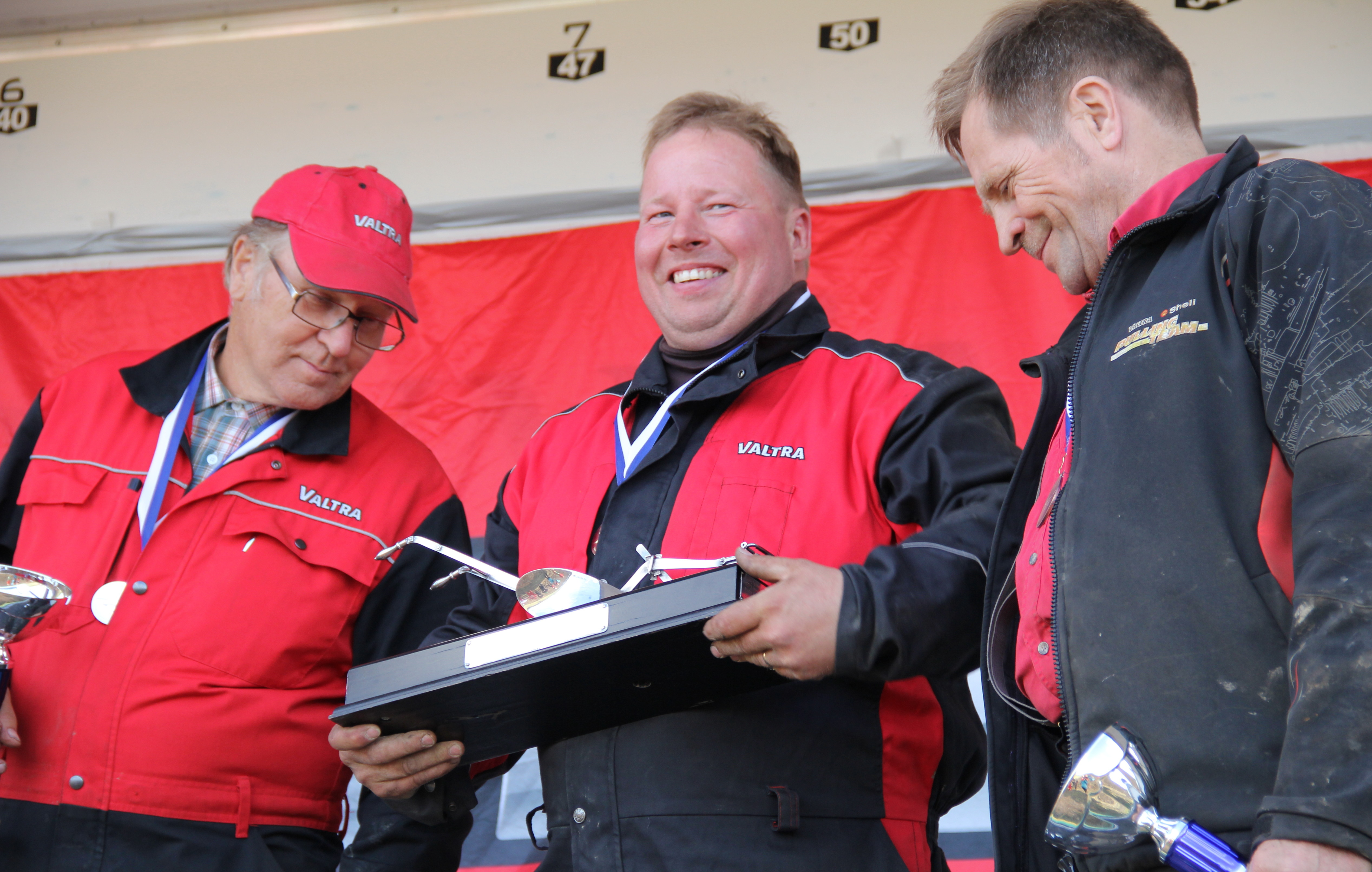 Tractor ploughing contest. National championships 2014 in Finland, Haltiala, Helsinki, Finland. Day two, conventional grassland ploughing. - Finnish champions in 2014, conventional ploughs. From left to right: Matti Rautiainen (2nd), Jarmo Itälehto (winner, with the perpetual championship trophy) and Lars-Erik Staffans (3rd).